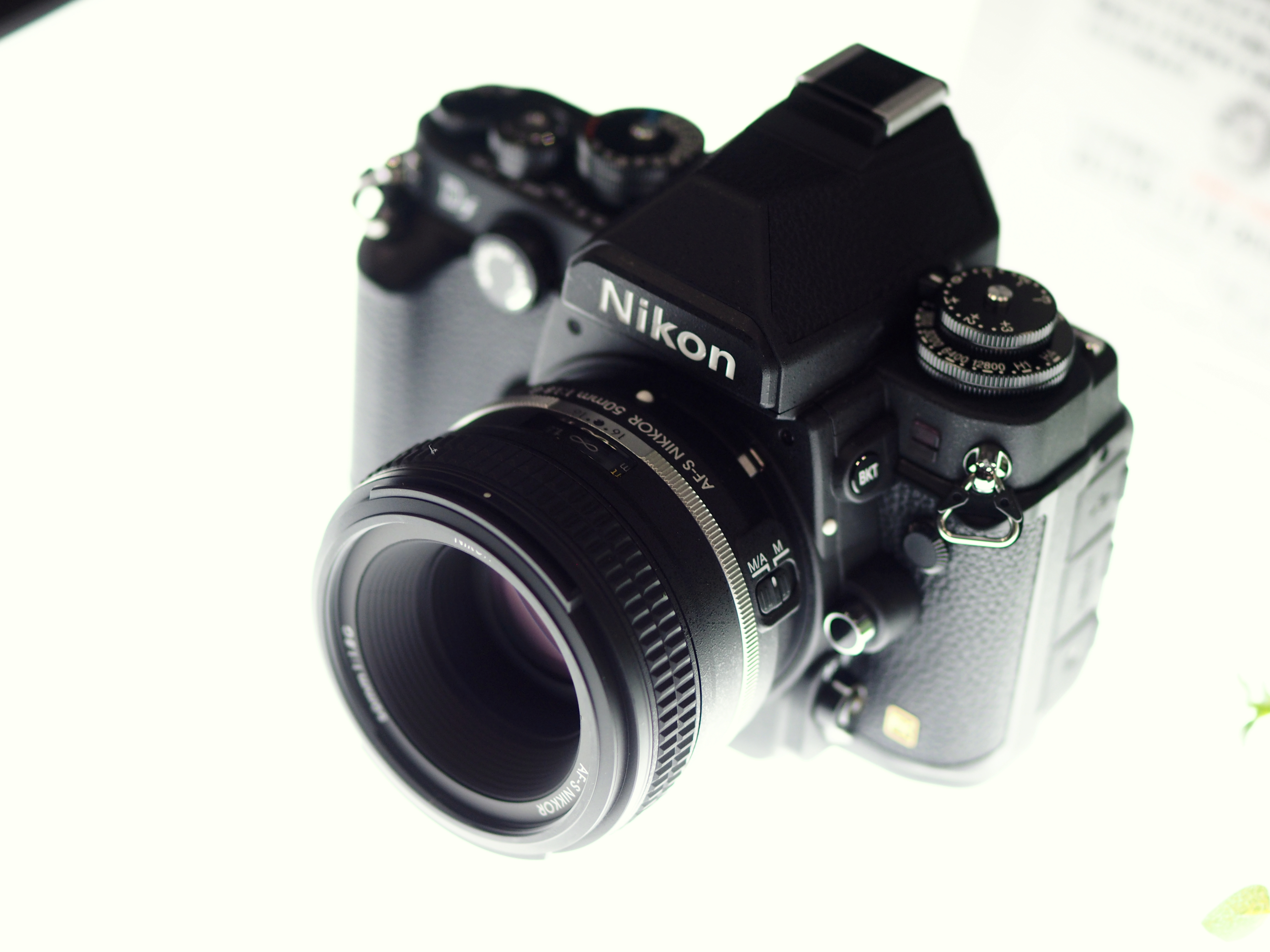 Nikon Df DSLR in black colour.